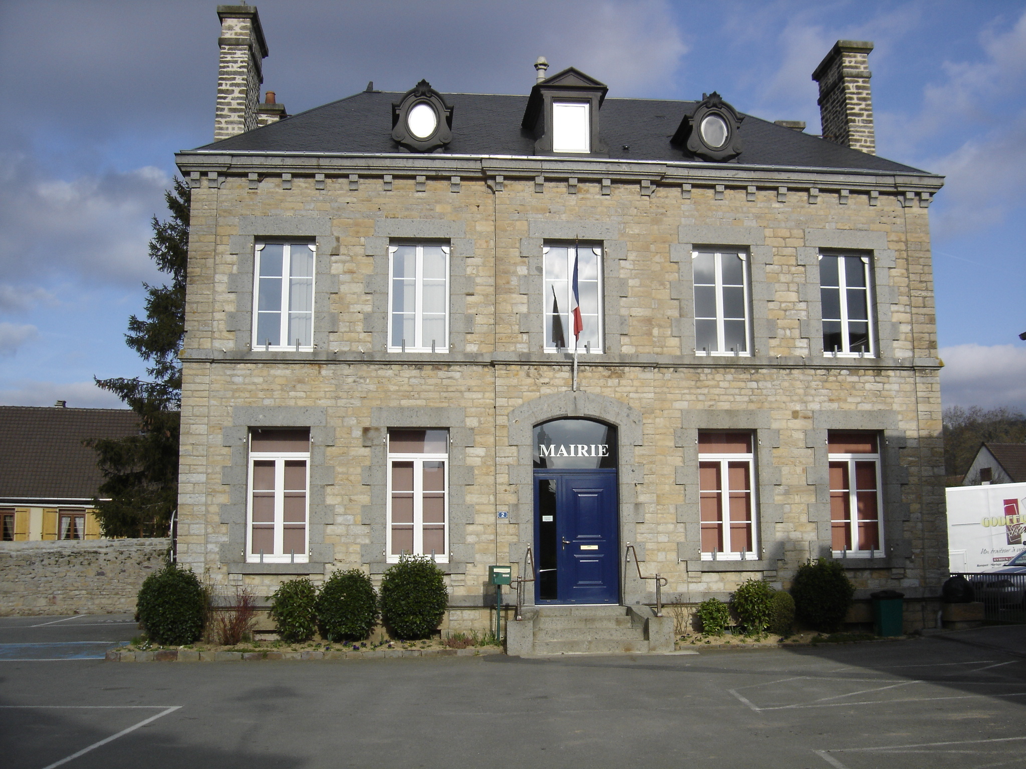 Town hall of Clécy, Calvados, France